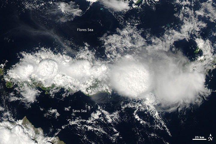 Cloud Towers (Cumulonimbus) above Flores Island (Indonesia)